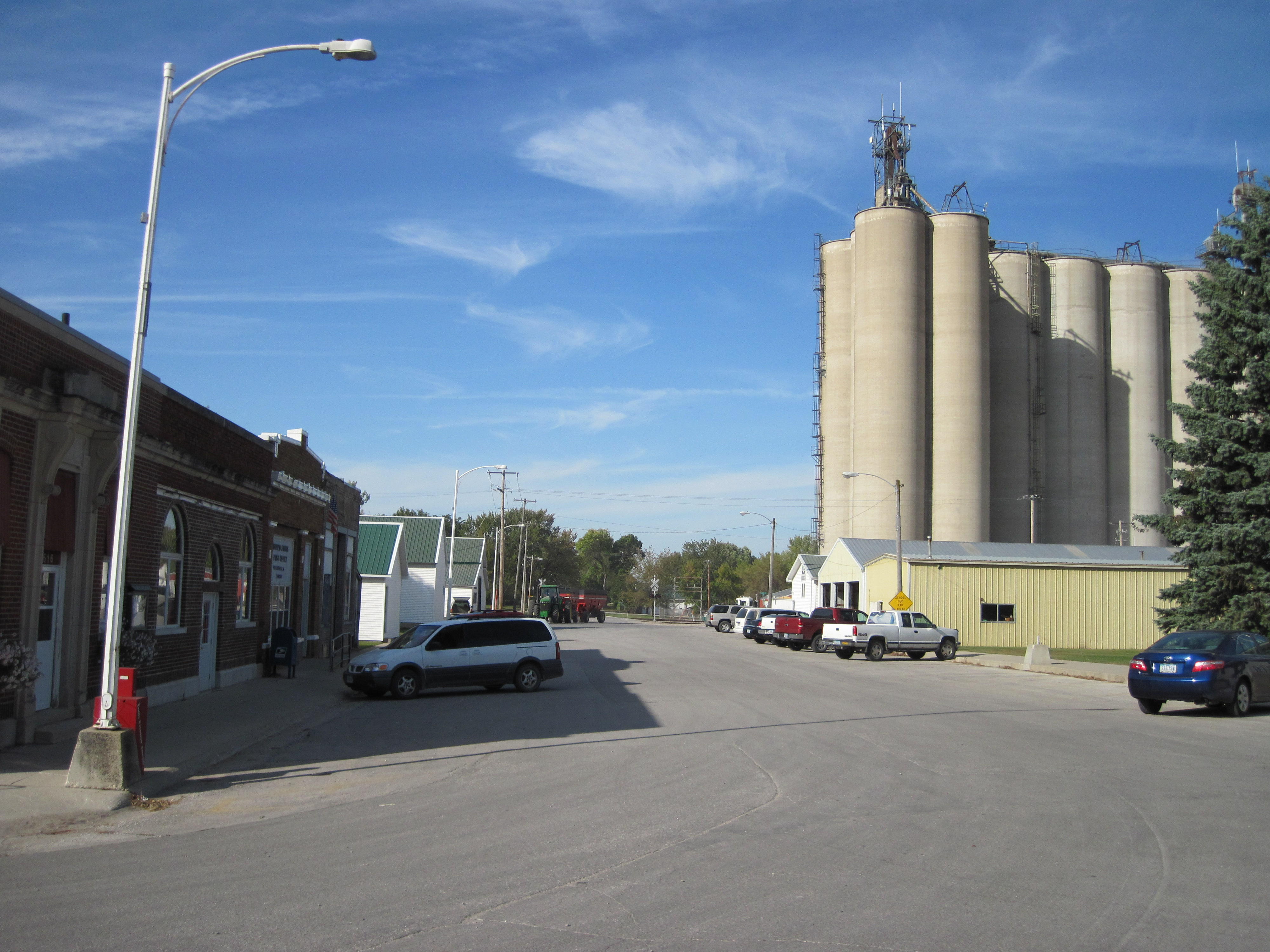 Blairsburg Bill Whittaker| (talk|) 12:57, 2 October 2009 (UTC) Summary Blairsburg Bill Whittaker (talk) 12:57, 2 October 2009 (UTC)